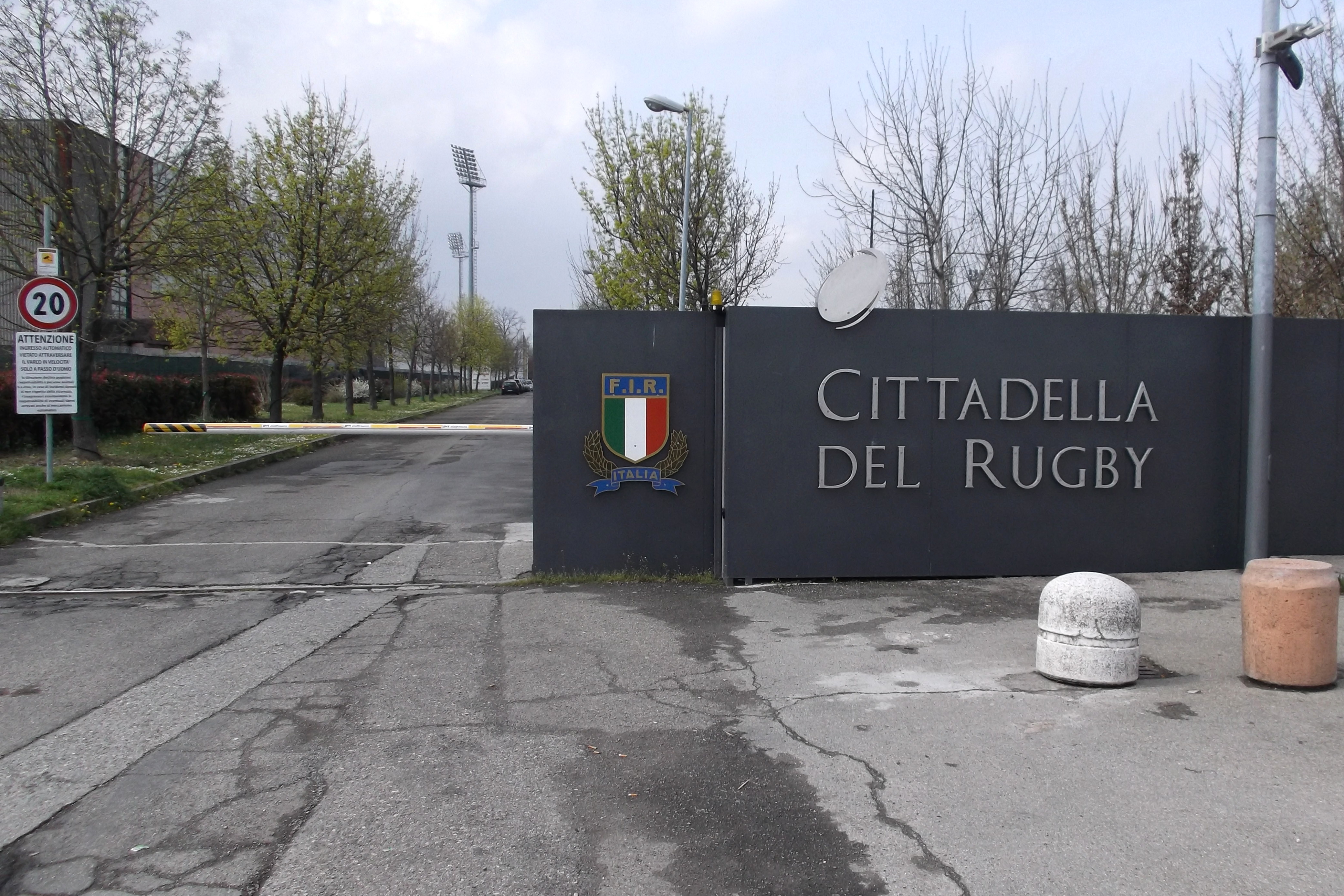 Main entrance of the sports complex in Parma where is located the Lanfranchi Stadium